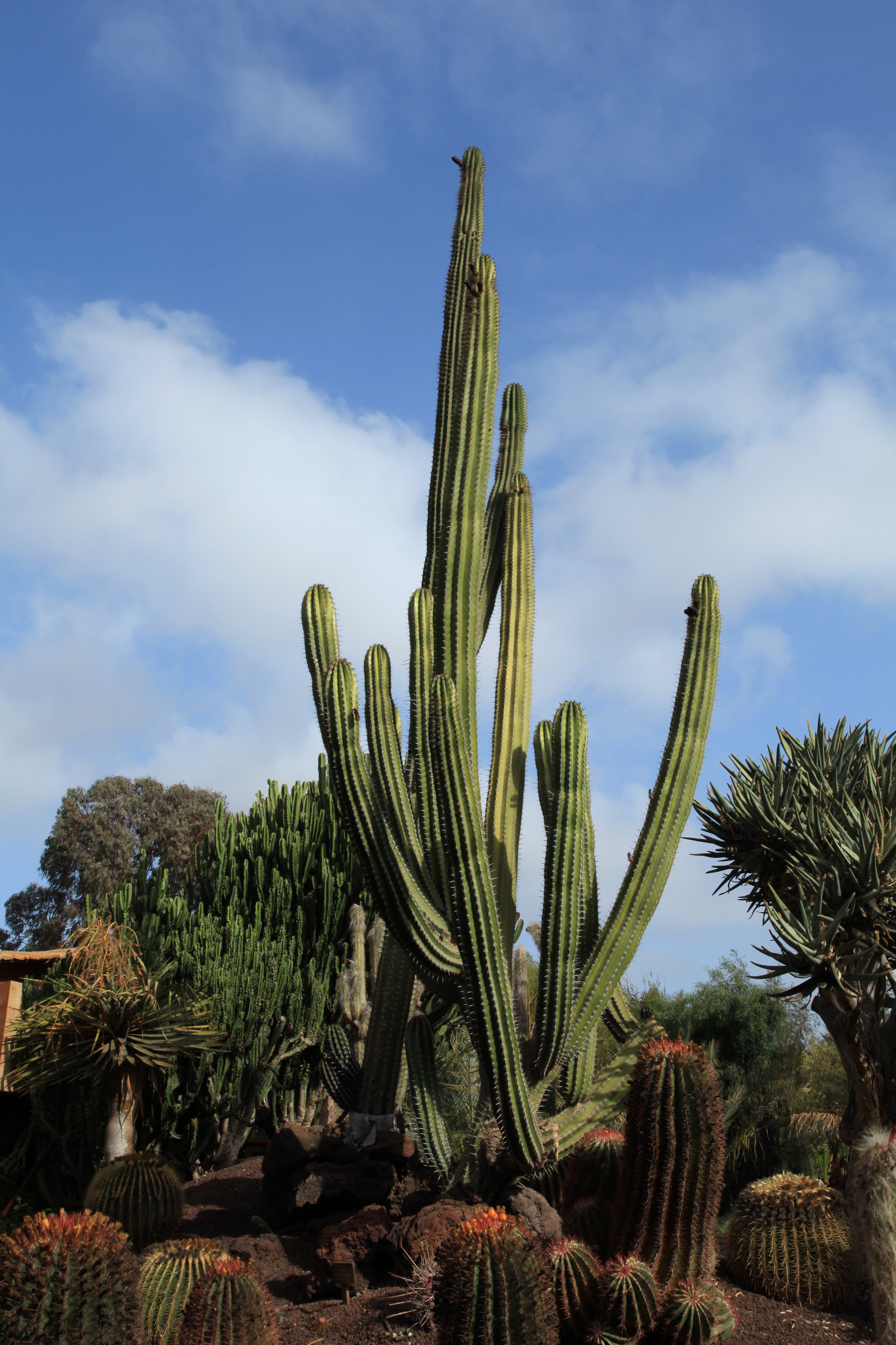 Pachycereus pecten-aboriginum in the Oasis Park in La Lajita, Pájara, Fuerteventura, Canary Islands